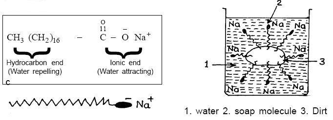 A diagram of the function of soap.